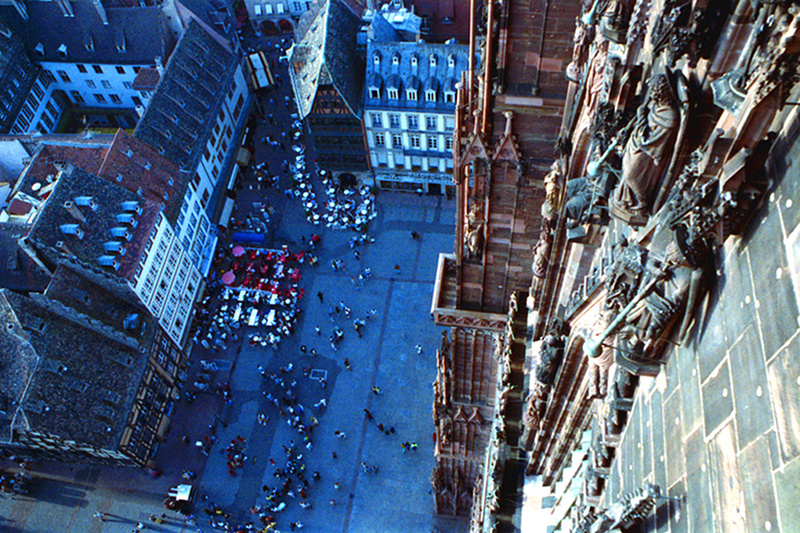 Cathedral of Our Lady of Strasbourg (Cathédrale Notre-Dame de Strasbourg) or the Strasbourg Cathedral, Strasbourg, France. Looking down from the roof at the west façade and the public square of the cathedral (Place de la Cathédrale) and sidewalk cafes.